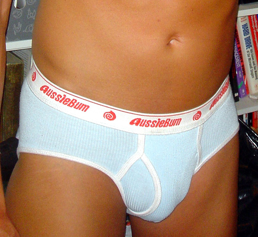 Pair of AussieBum Undies in ice blue.